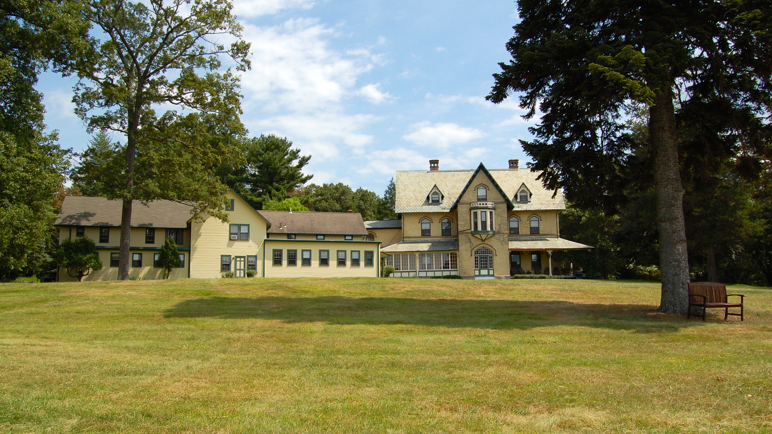 Woodlawn, Garrison, NY, USA. 1854 estate by Richard Upjohn; now home of the Hastings Center.